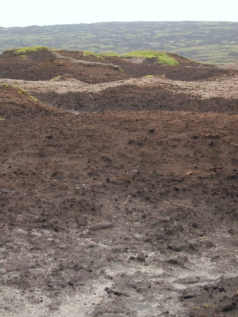 Bleaklow Peat Hags. Looking west from near the Wain Stones over the badly eroded peat hags.